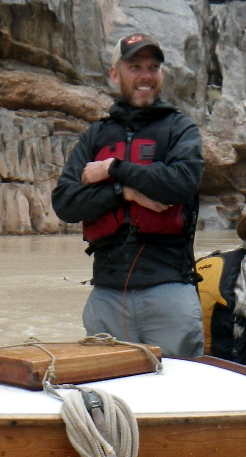 Dr Sam Willis